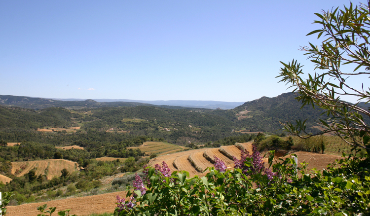 view of the area next to the village of Suzette, Vaucluse, France